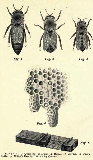 Illustration from the book How to Keep Bees (1905) by Anna Botsford Comstock